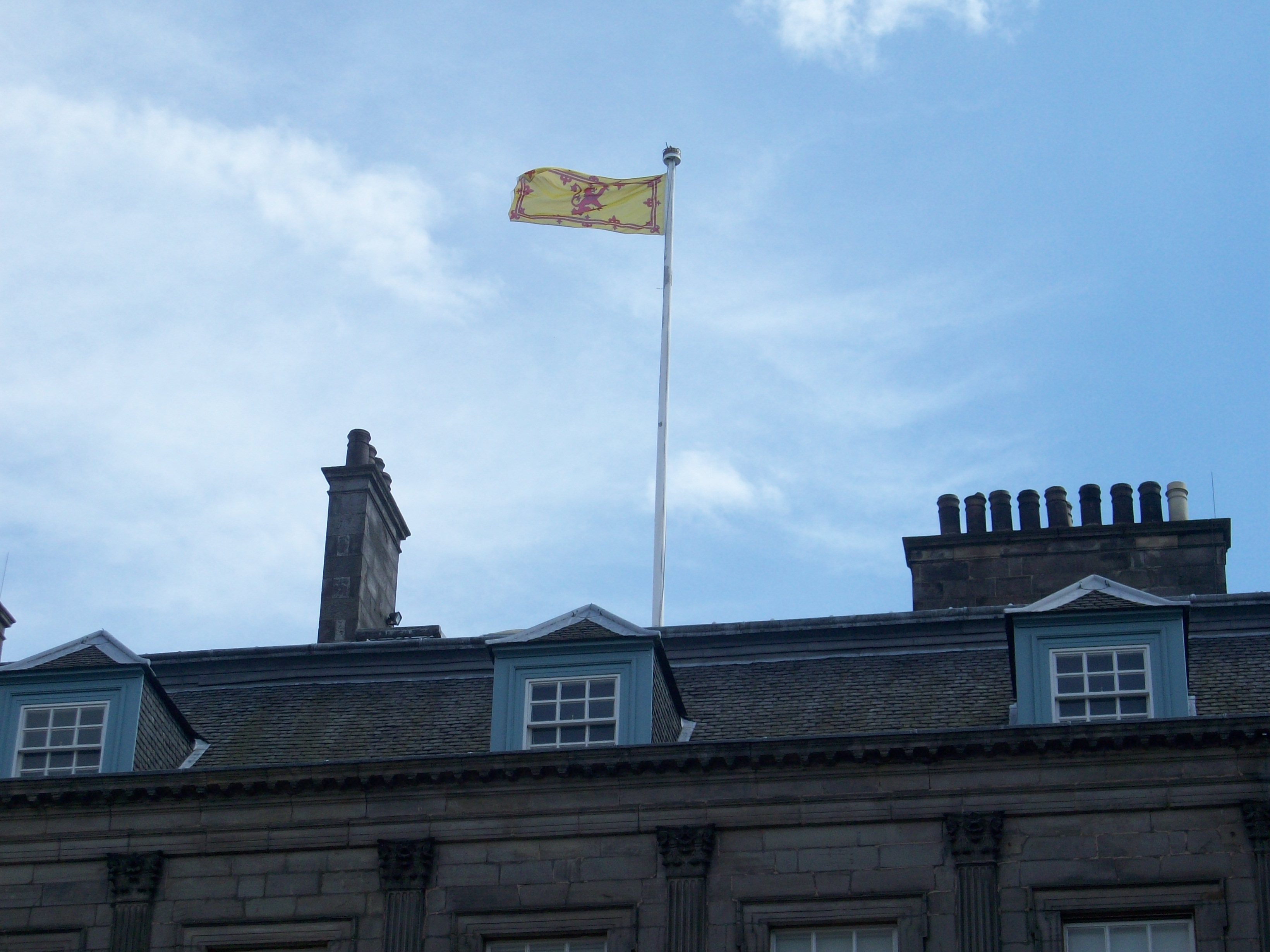 Lion Rampant (the Scottish royal standard) flies above Holyrood Palace, Edinburgh.